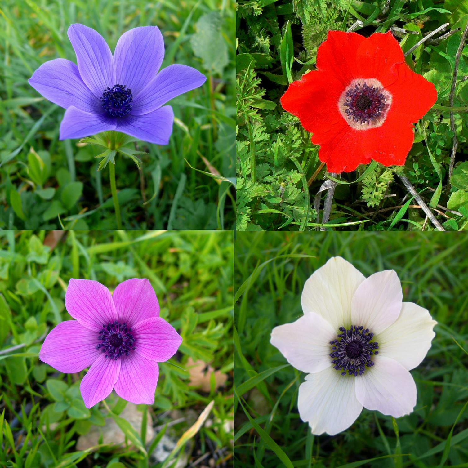 Israeli Anemones in various colors: red, blue, white and pink.Anemone coronaria, Israel This photograph was released under free license for the benefit of common knowledge and love of nature, and is dedicated to Naomi Oppenheimer.